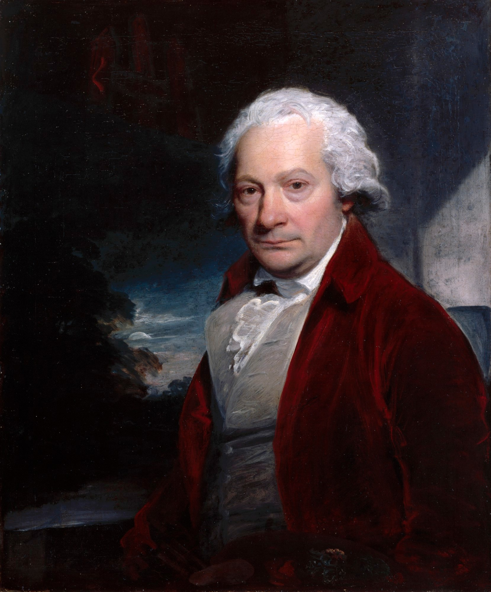 Portrait of Paul Sandby, R.A. by Sir William Beechey R.A. (1753-1839), painted ca. 1789 Credit line: (c) (c) Royal Academy of Arts / Photographer credit: John Hammond /